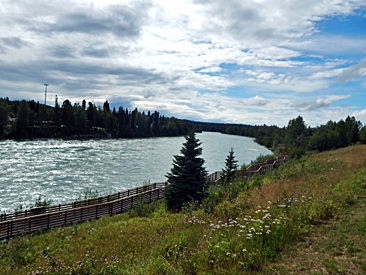 Soldotna Creek Park along the Kenai River in Soldotna, Alaska.